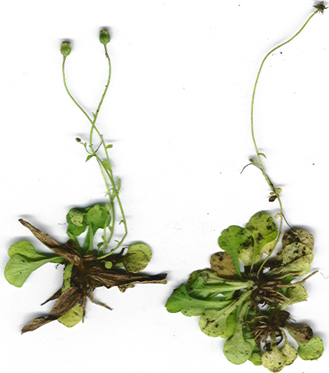 Erigeron bellioides (plant). Location: Hawaii, Hilo